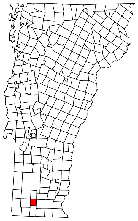 Description: Map of Vermont towns with Searsburg highlighted Source: Map created by Jared C. Benedict on 26 March 2004. Copyright: © Jared C. Benedict.